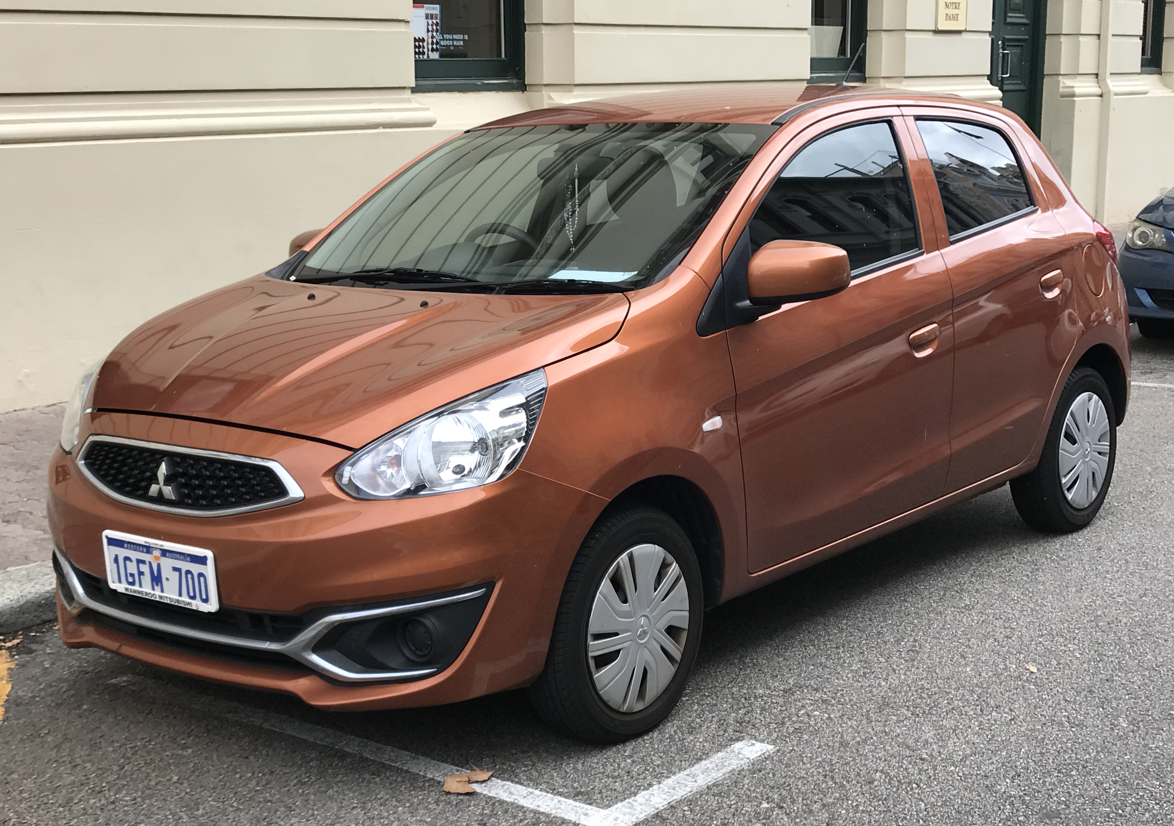 2017 Mitsubishi Mirage (LA MY17) ES hatchback. Photographed in Fremantle, Western Australia, Australia.